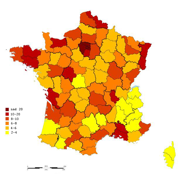 Density of France Monuments historiques by department for 100 km2